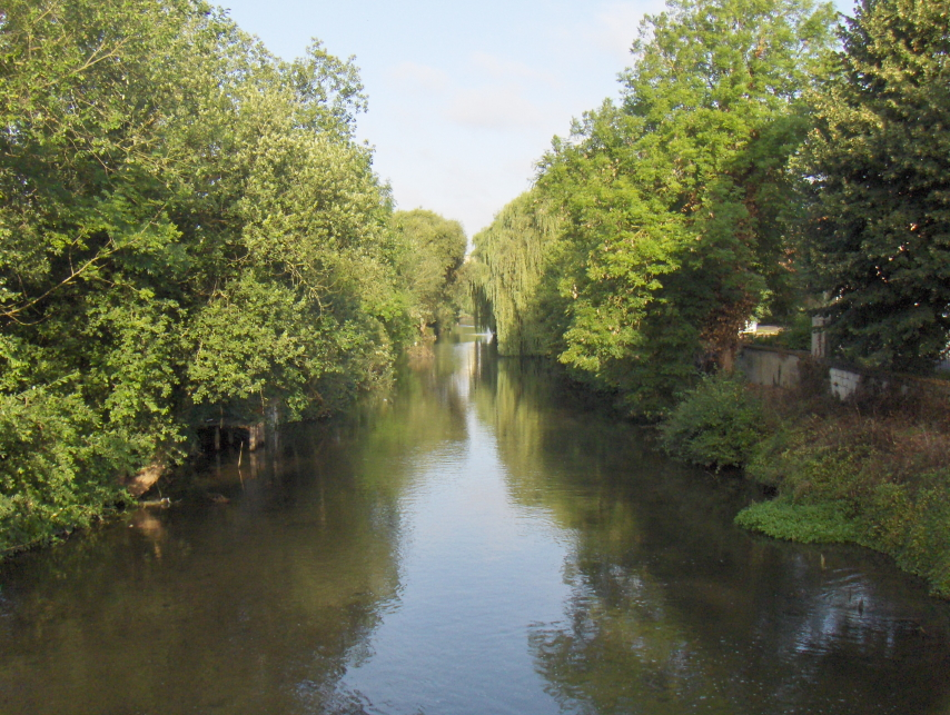 Nonette river in la Canardière at Chantilly (Oise, Picardy)